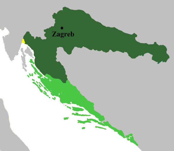 Triune Kingdom of Croatia, Slavonia and Dalmatia 1868-1918 Dark green - Triune Kingdom Light green - de jure part of Yellow - under joint Croatian-Hungarian administration